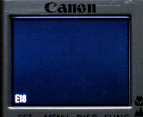 Canon Ixus II displaying the dreaded E18 error, the nightmare of every Canon digital camera owner. Cropped, reduced and colours tweaked from original shot. Taken with a Canon Ixus 430, no flash.